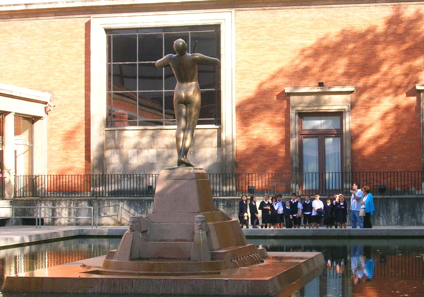 A school group looking at monument to composer Juan Crisóstomo Arriaga, besides Bilbao Museum of Fine Arts. The statue, by Francisco Durrio represents Euterpe, Muse of music, crying after Arriaga's death